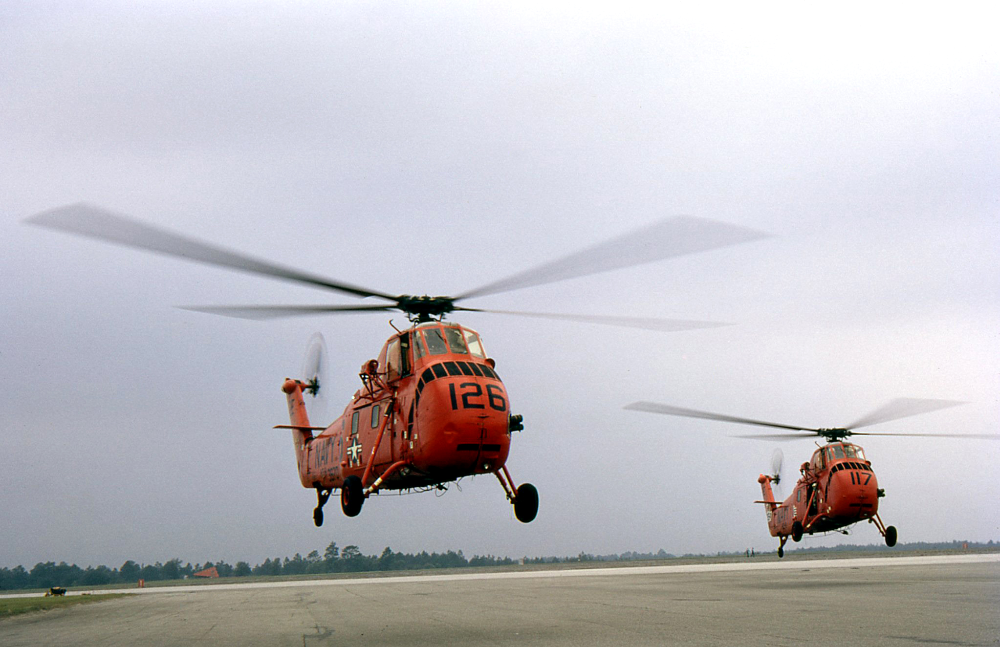 Sikorsky UH34Gs airborne at NAS Ellyson Field Pensacola 1968. Image scanned from a color slide taken by author with a Kodak Retinette.